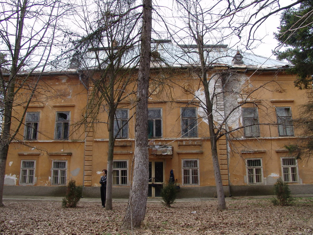 Gedeon Rohonczy Castle - southern facade